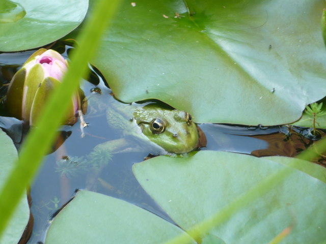 Frog in garden pond in Davington, Faversham This giant invader, I suspect, has already had a meal off the little common frogs. I'd be glad if anyone can identify it. Could it be a marsh frog as we get plenty of those near Faversham and Oare creeks?